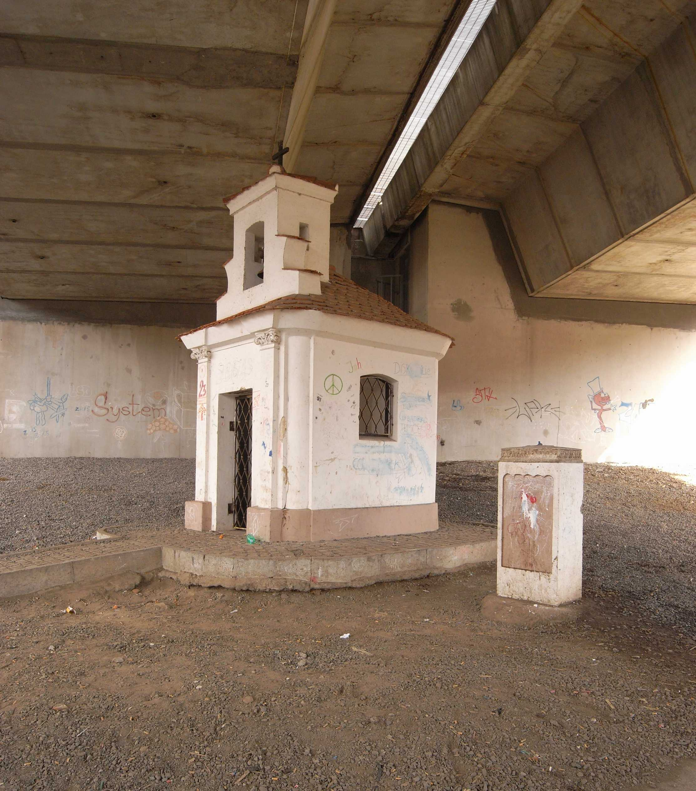 small chapel "Virgin Mary" (1820) in Trmice-Koštov under motorway (Czech Republic) "respect or irreverent?"